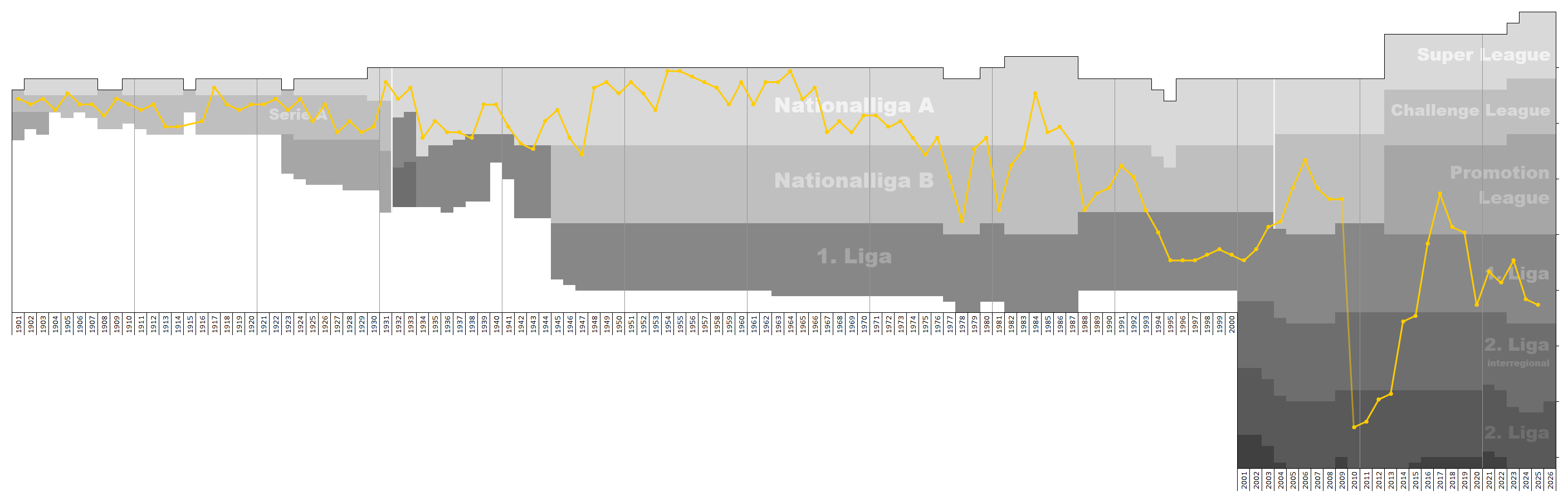 Chart of end-season table positions for FC La Chaux-de-Fonds in the Swiss football league system. Data source: RSSSF, , al-la.ch